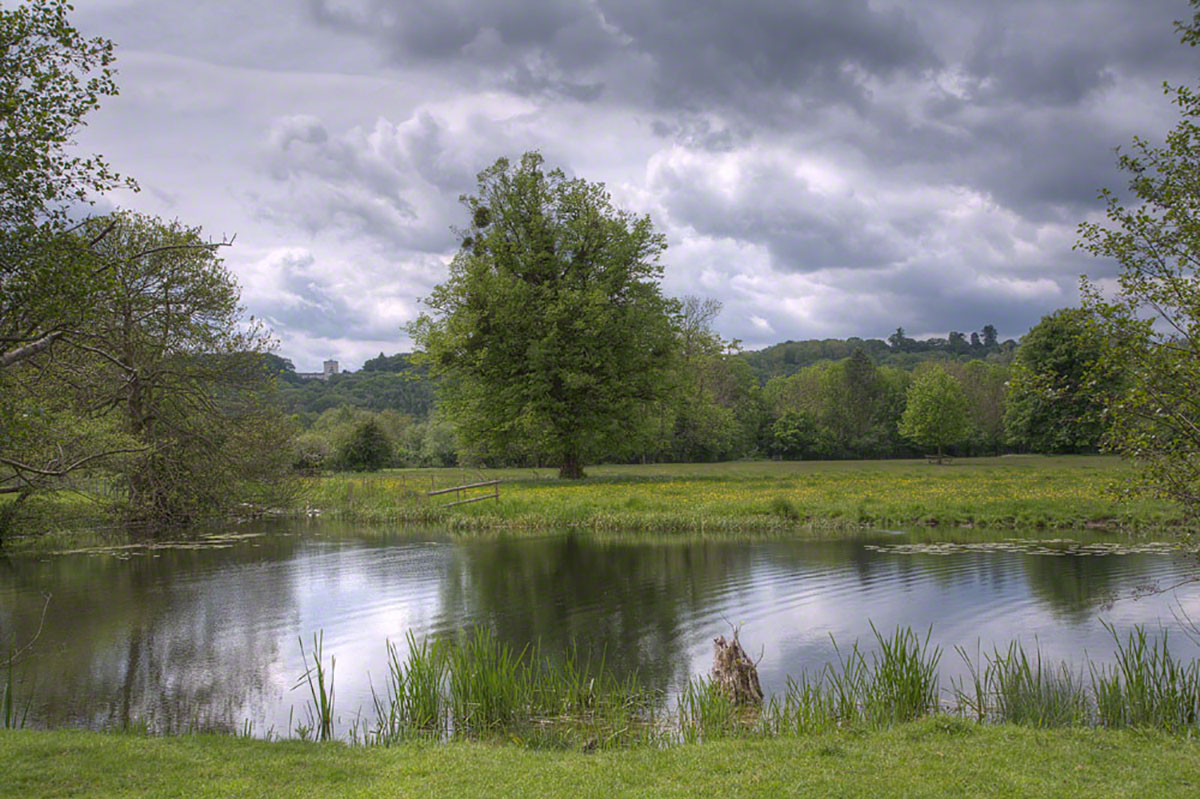 View from north bank of Thames over Magna Carta Island and water meadows towards Air Forces Memorial on horizon at left